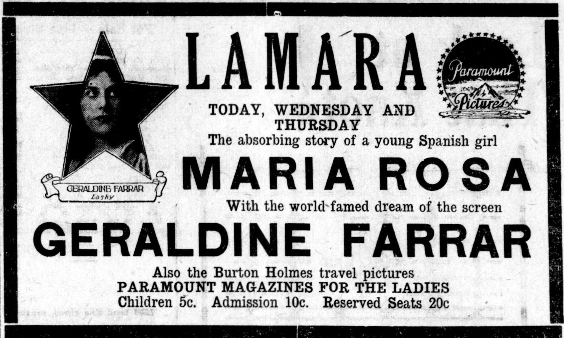 Maria Rosa is a surviving 1916 silent drama film directed by Cecil B. DeMille. Newspaper advert.